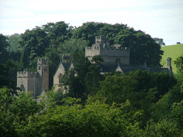 Tree House Wennington Hall School, Wennington.